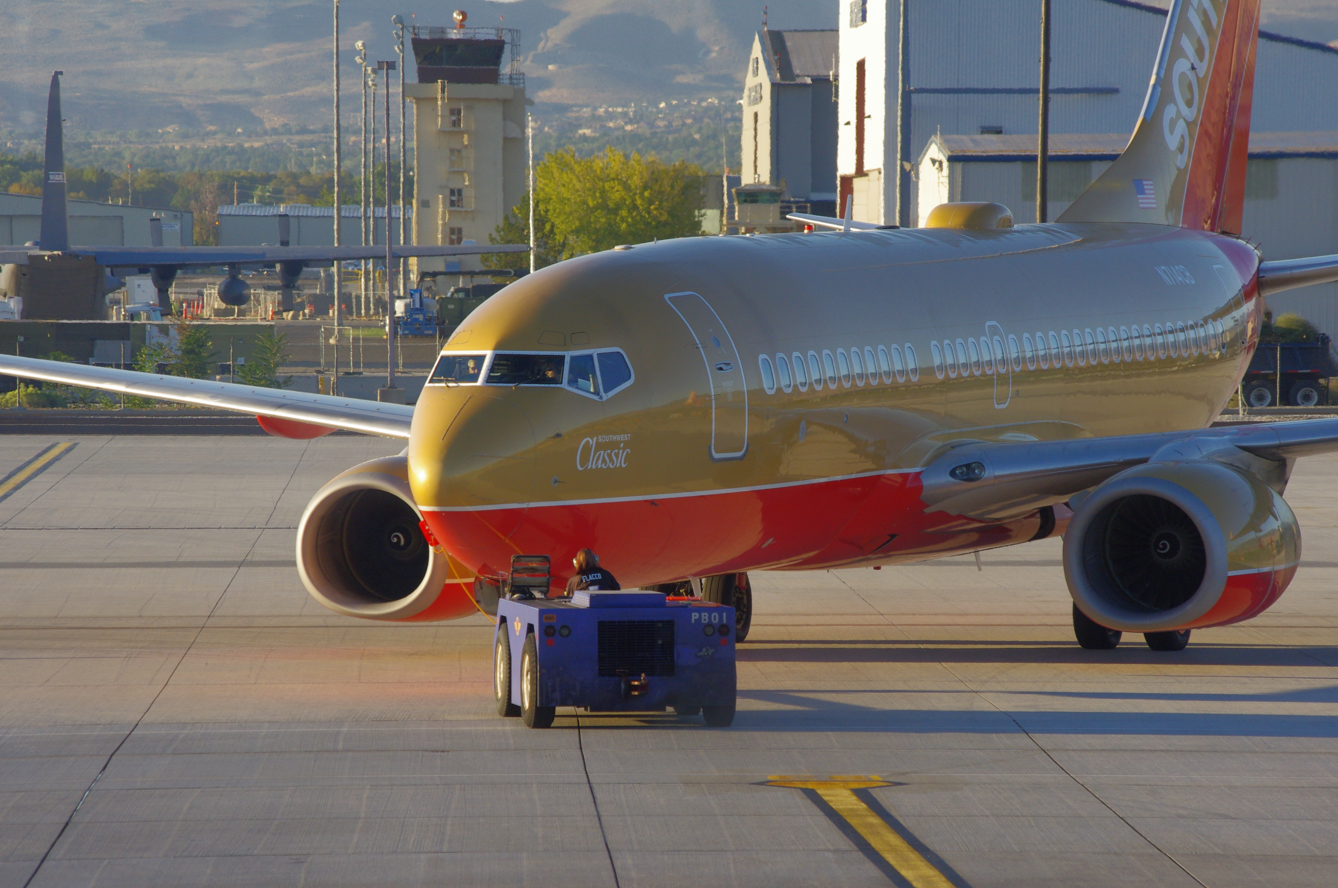 Southwest Airlines Boeing 737-700 pushing back at Reno Airport, Nevada